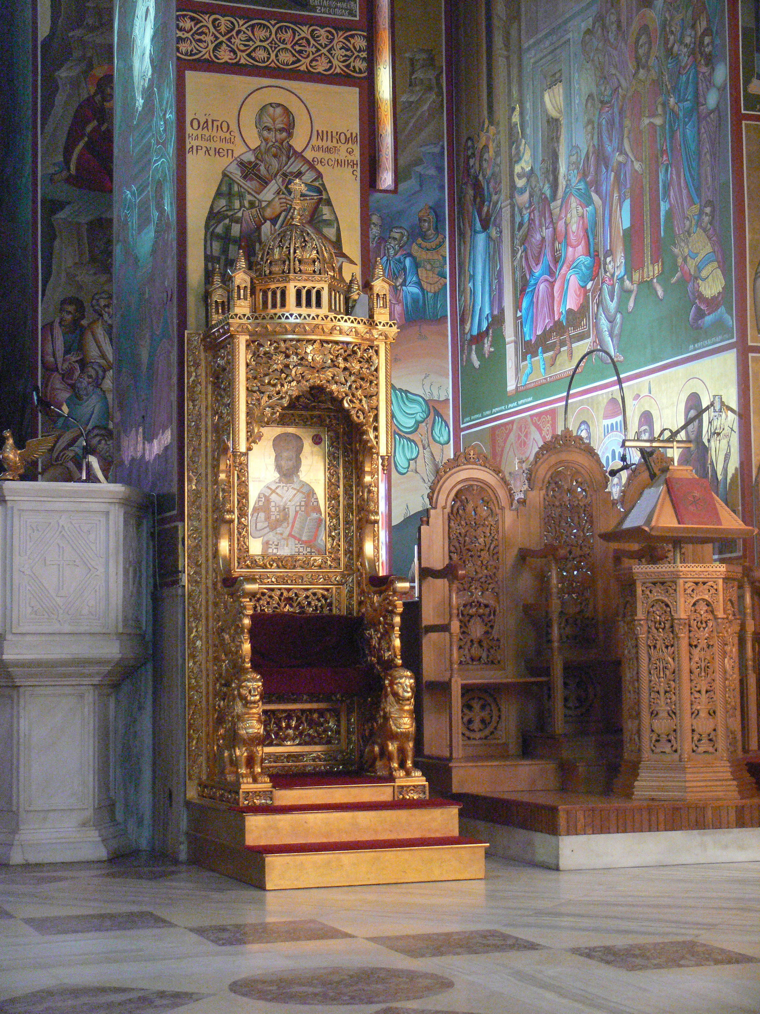 The Church of Saint Gregory Palamas, Metropolitan Church of the Orthodox. Sedile